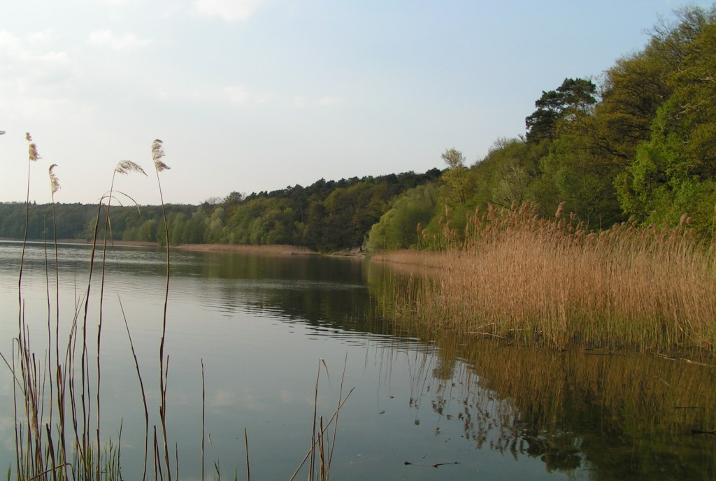 Goreckie lake located in Wielkopolska National Park